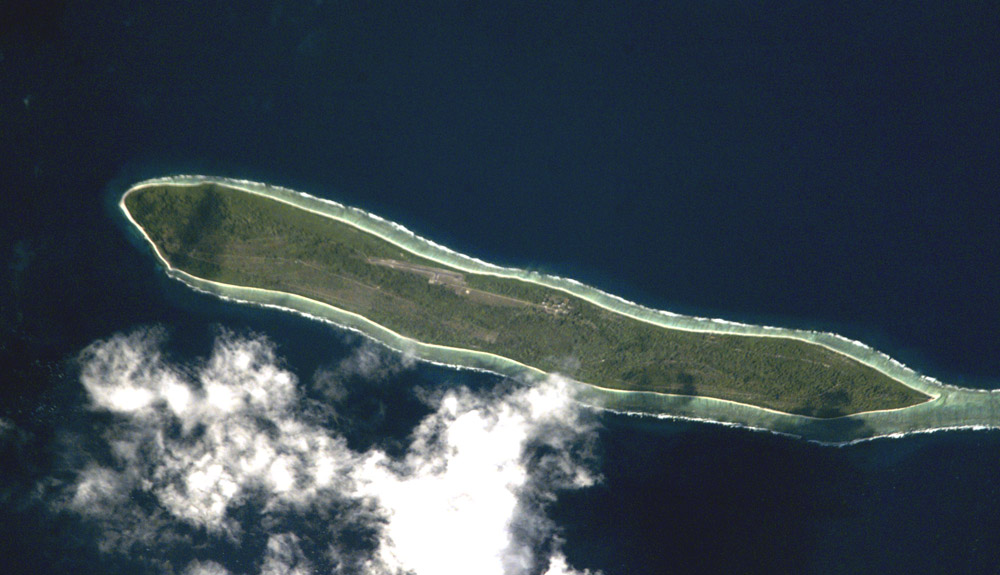 NASA atronaut image of North Agalega Island (Mauritius) in the Indian Ocean